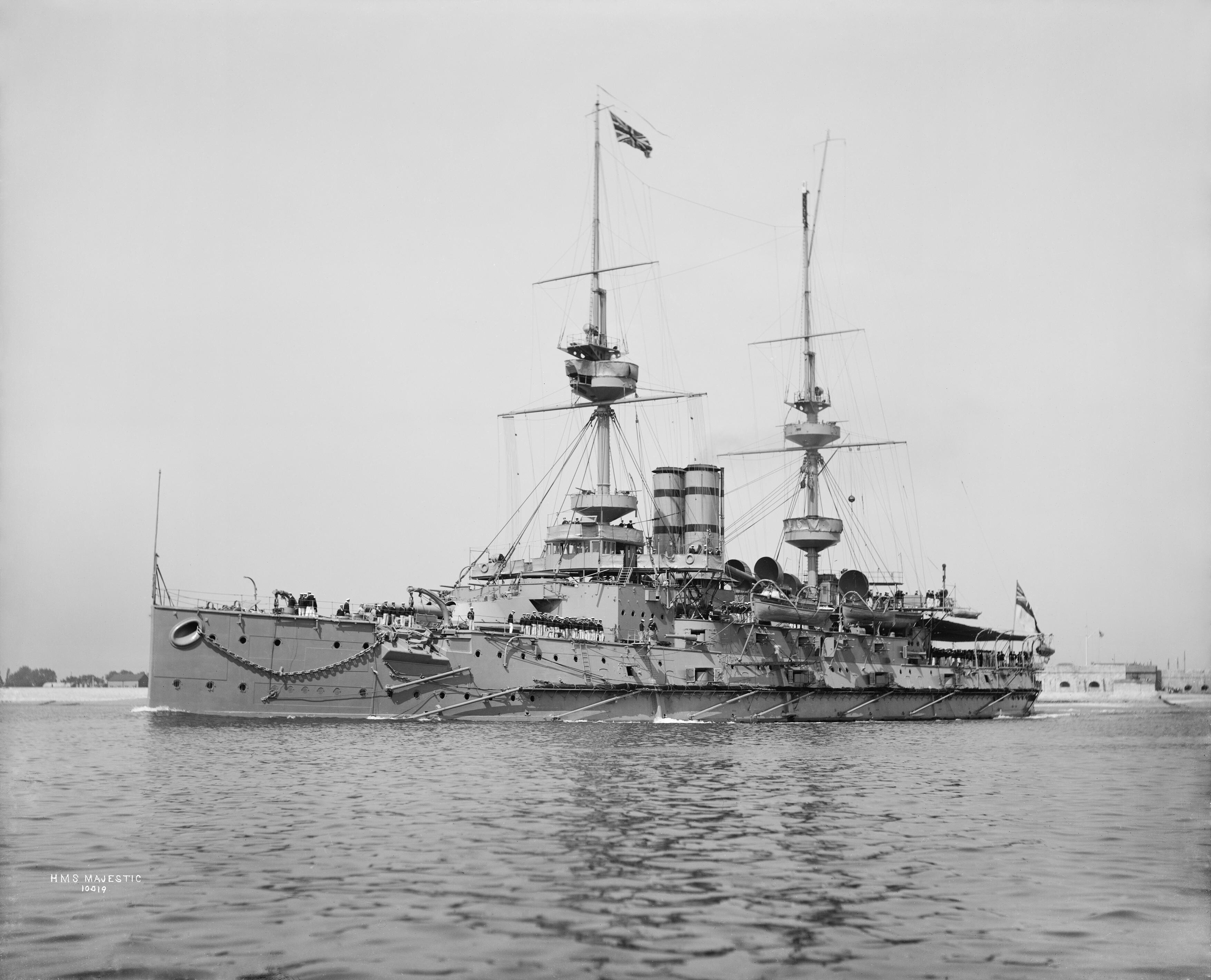 British Ships of the First World War HMS MAJESTIC. Torpedoed by U-21 off Gabe Tepe in the Dardanelles, 27 May 1915.